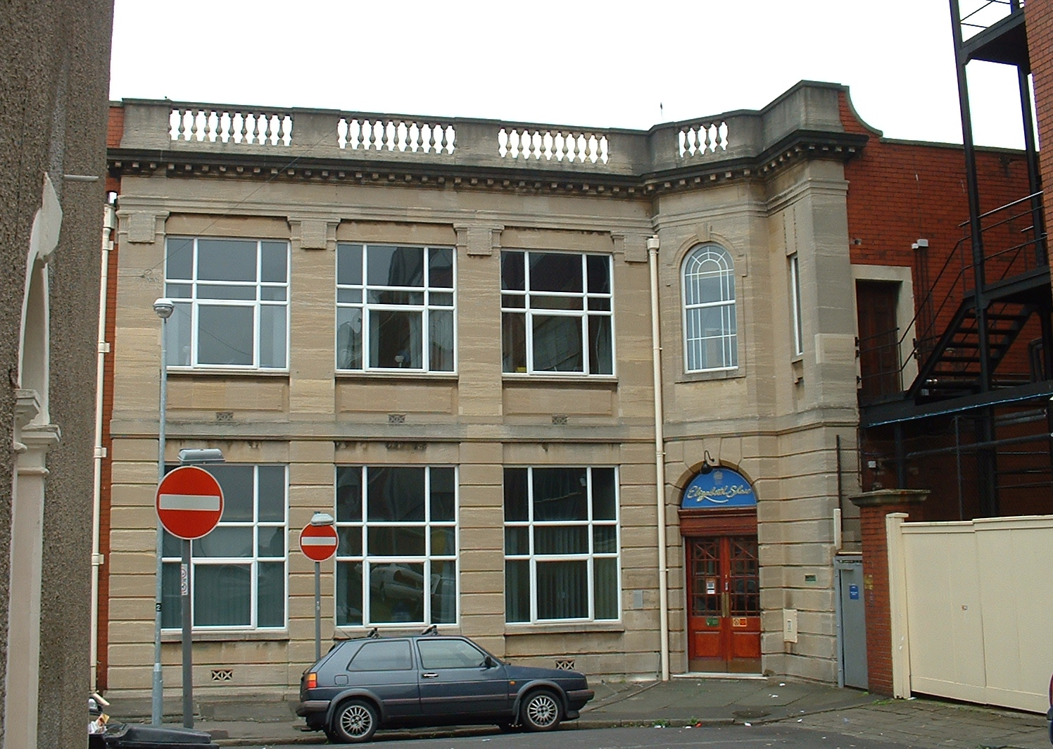 Office of the Elizabeth Shaw chocolate factory on Cooperative Road Greenbank, Bristol.